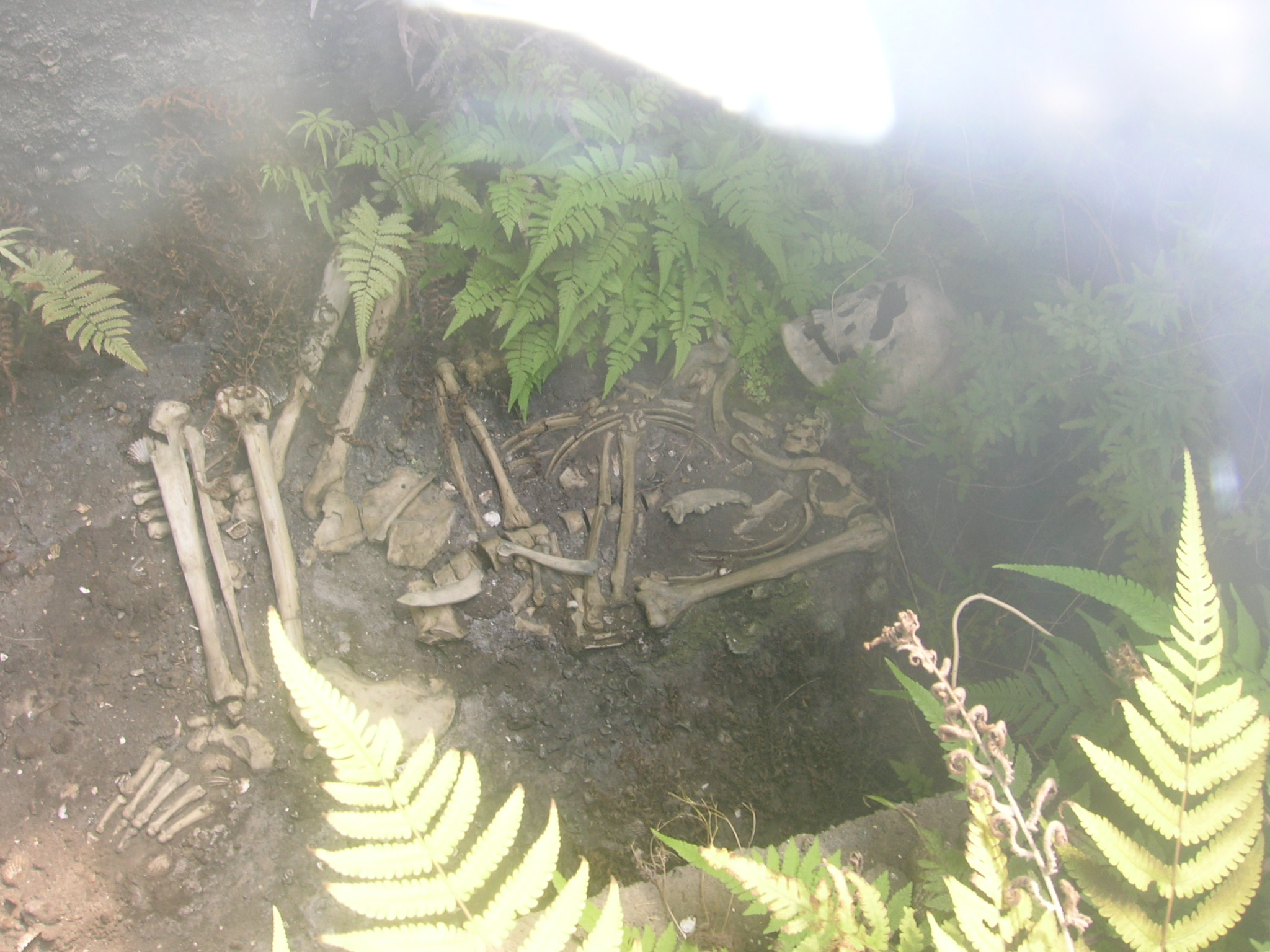 Kussou/Kussō (Flexed burial), Excavation from Ōguruwa shell mounds. (This is Replica.) Loc: Ōguruwa kaizuka (Ōguruwa shell mounds), Mizuho-ku, Nagoya city, Aichi Prefecture, Japan. 屈葬人骨（レプリカ） 撮影場所 愛知県名古屋市瑞穂区・大曲輪貝塚